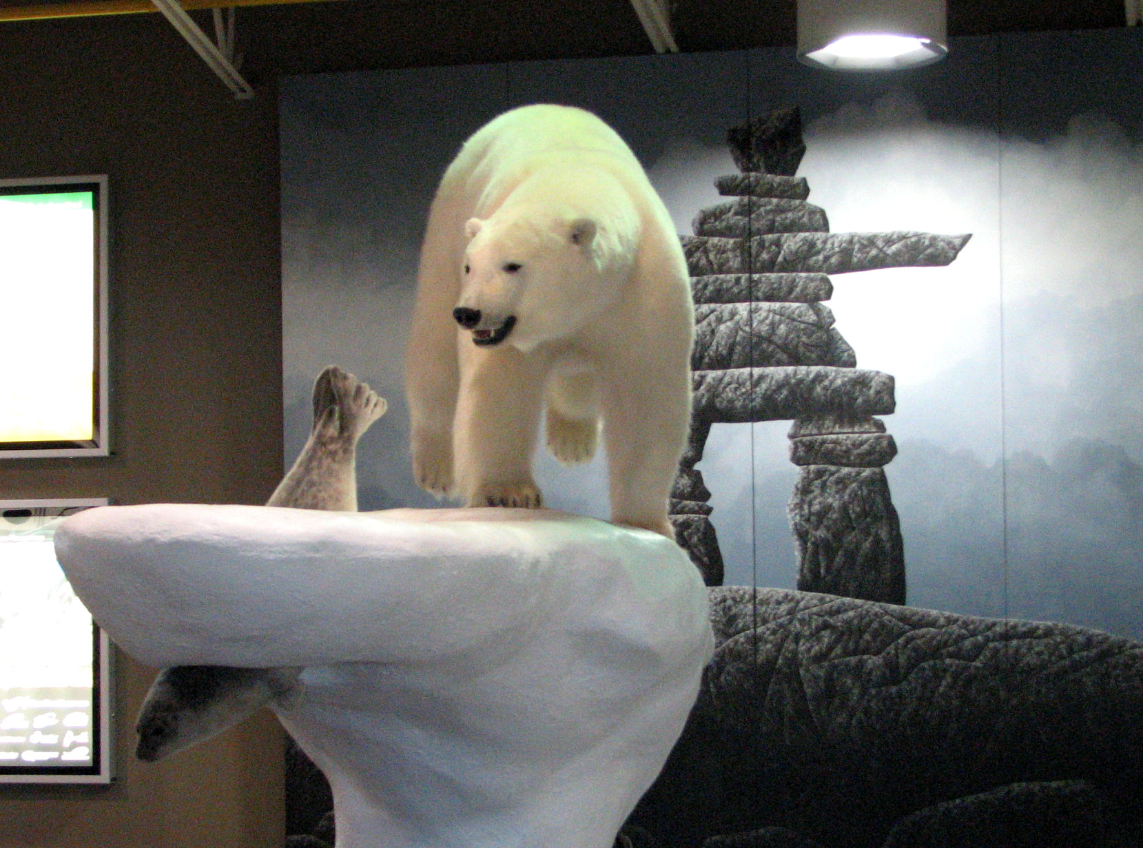 Sculpture of Polar Bear chasing a Seal, Yellowknife Airport, Northwest Territories, Canada